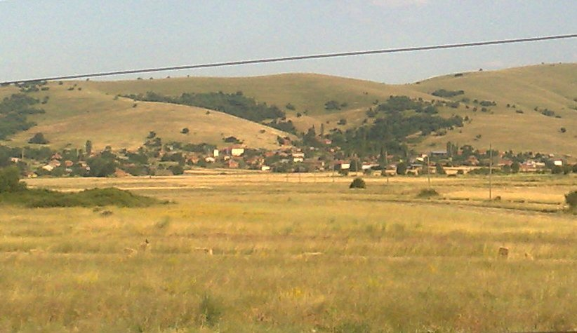 village of Zagorani near Prilep, Macedonia